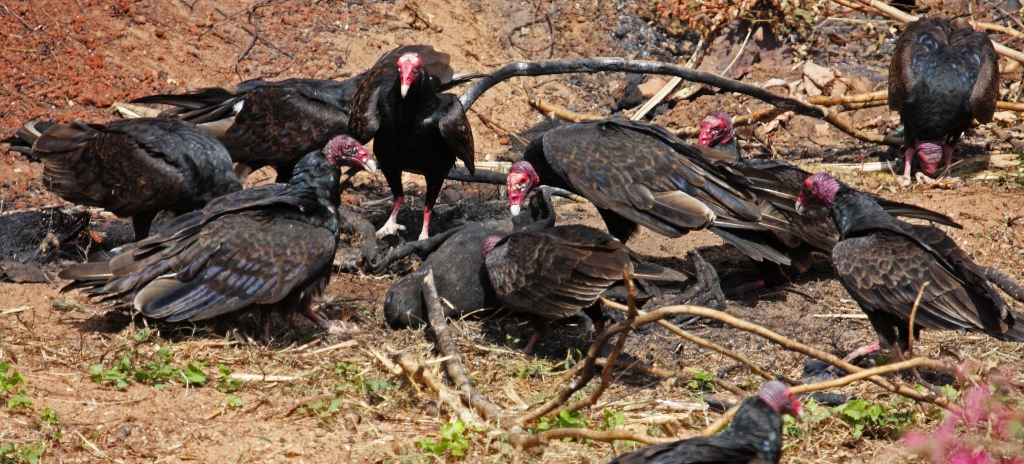 Feeding on a cow head that had been thrown out from a village near Trinidad, Sancti Spíritus.